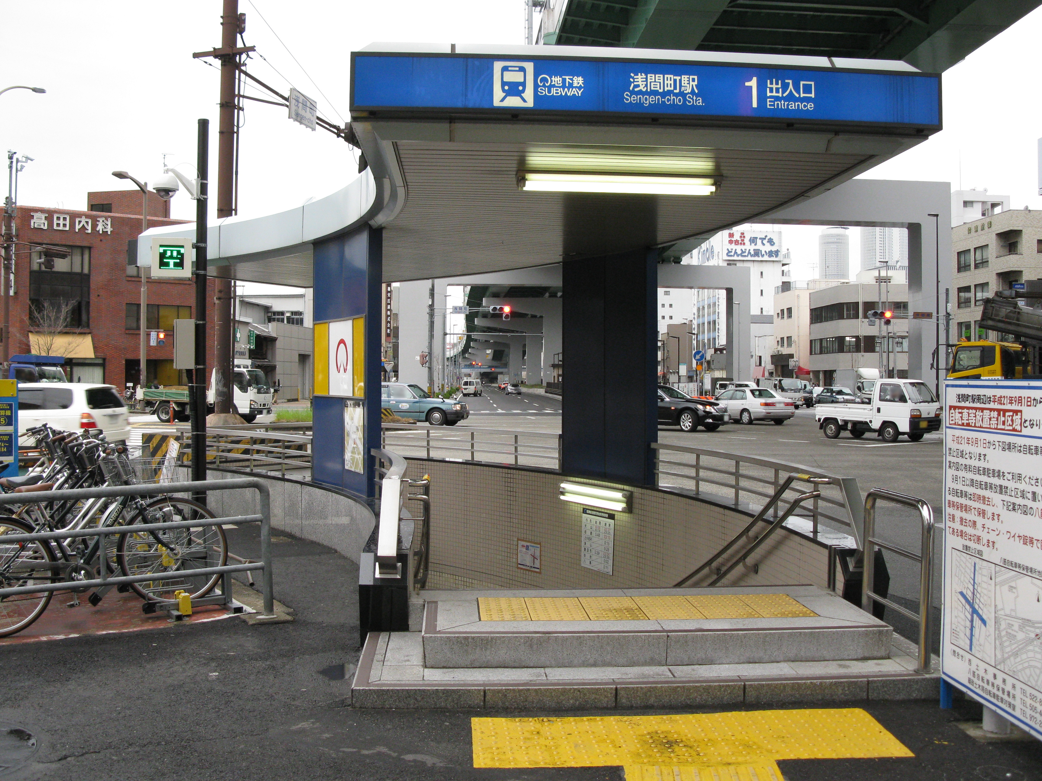 Sengen-chō Station no.1 entrance (Nagoya Municipal Subway Tsurumai Line)